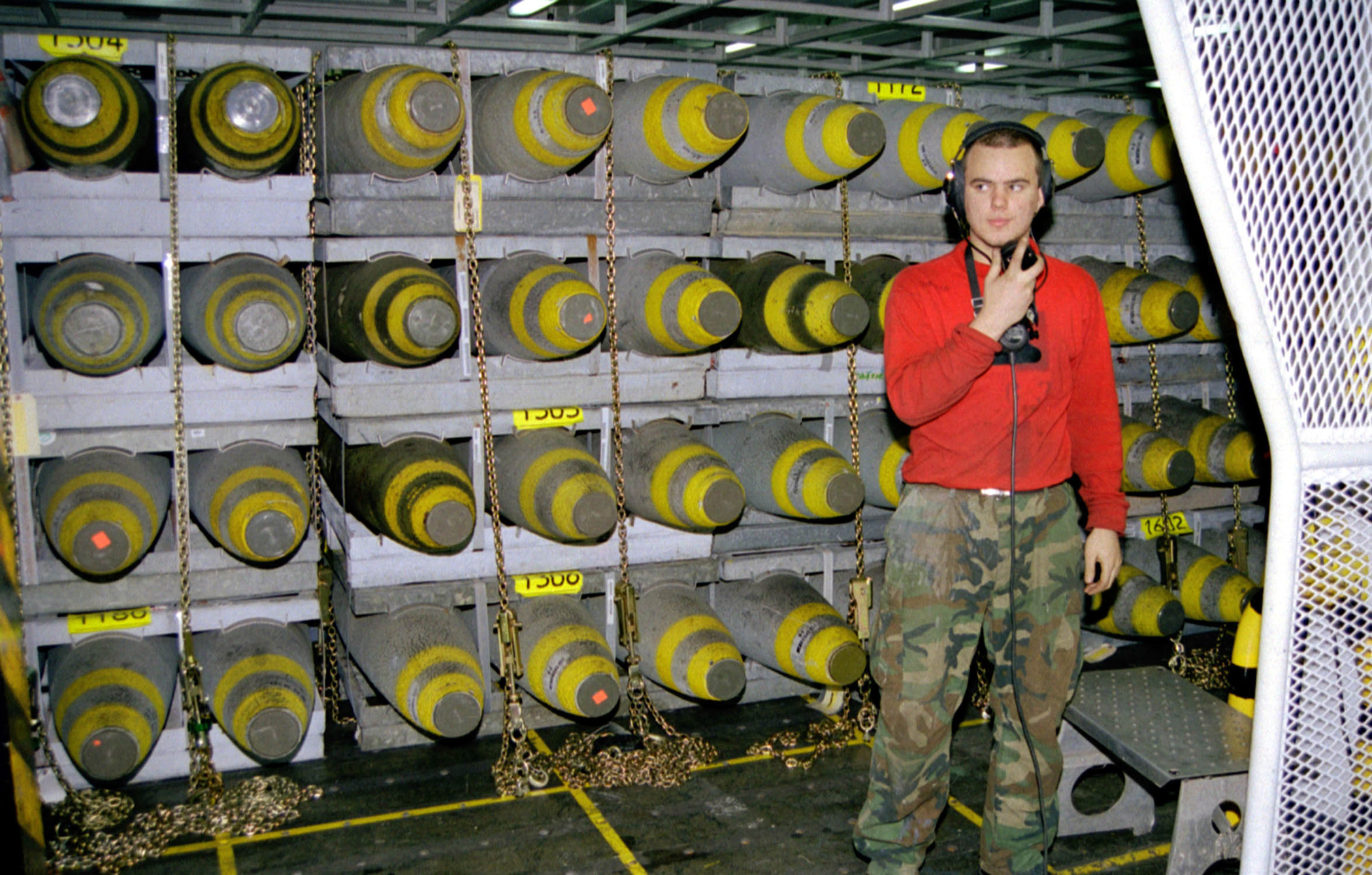 At sea aboard USS Theodore Roosevelt (CVN 71) May 29, 1999 -– In the forward magazine aboard the USS Theodore Roosevelt (CVN 71) Airman James Shrout of Authordale, West Virginia is the phone talker sending and receiving bombs from the hangar bay. Roosevelt is operating in the Adriatic Sea in support of Operation Allied Force. U.S. Navy photo by Photographer’s Mate Airman Apprentice Jason Scarborough. (RELEASED)